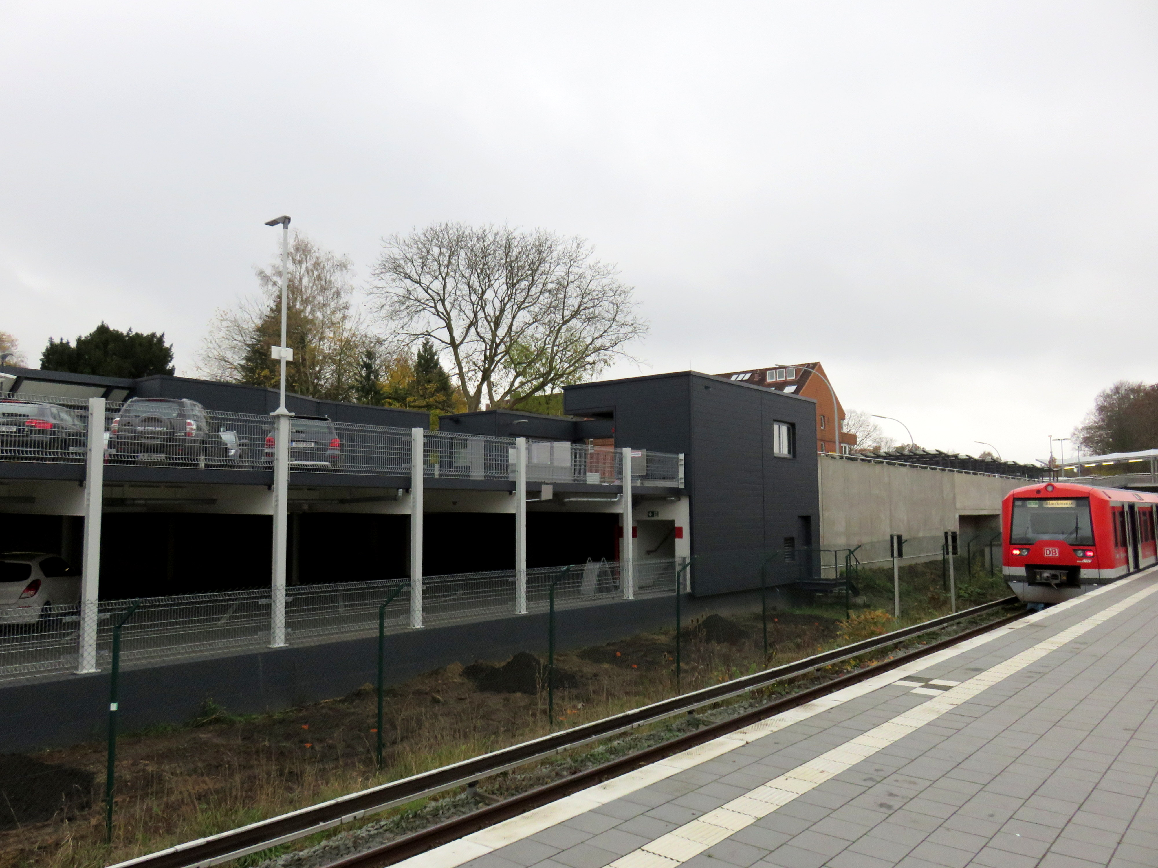 The new Park-and-ride system with Park-and-bike-system at S-Bahn (suburban train) station (chargeable), Hamburg-Poppenbüttel.